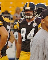 Pittsburgh Steelers players before a preseason game